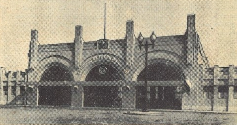 New building of the Sul and Sueste ferry terminal, in the city of Lisbon, Portugal. This building was inaugurated on the 28th May 1932. This photograph was published on the Gazeta dos Caminhos de Ferro magazine No. 1325, of 16th April 1944, and scanned by the Hemeroteca Municipal de Lisboa.